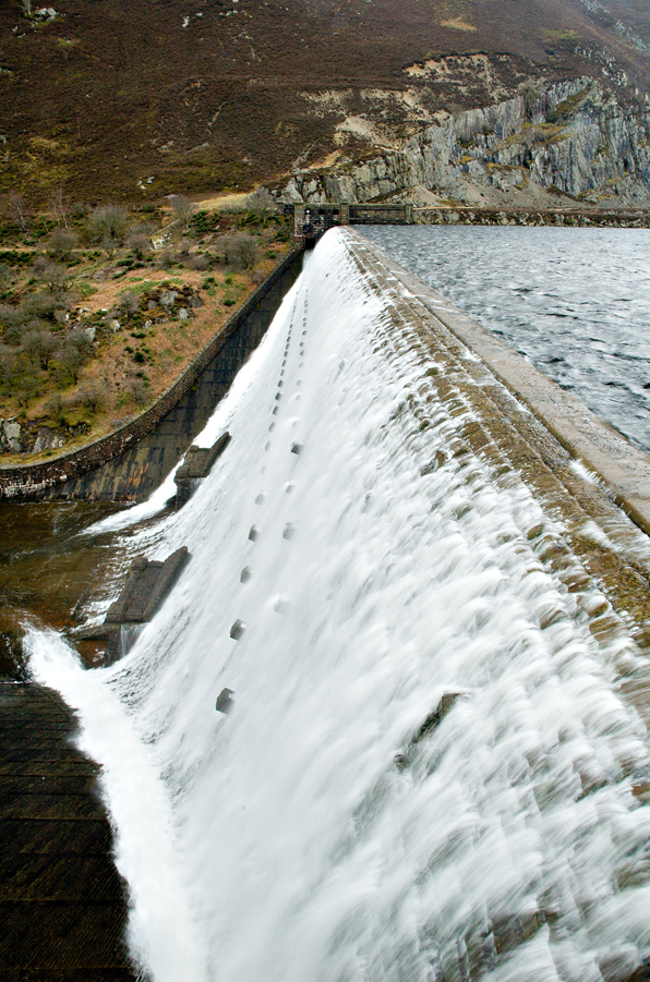 Photograph of the Caban Coch Dam in the Elan Valley taken by myself in 2006.